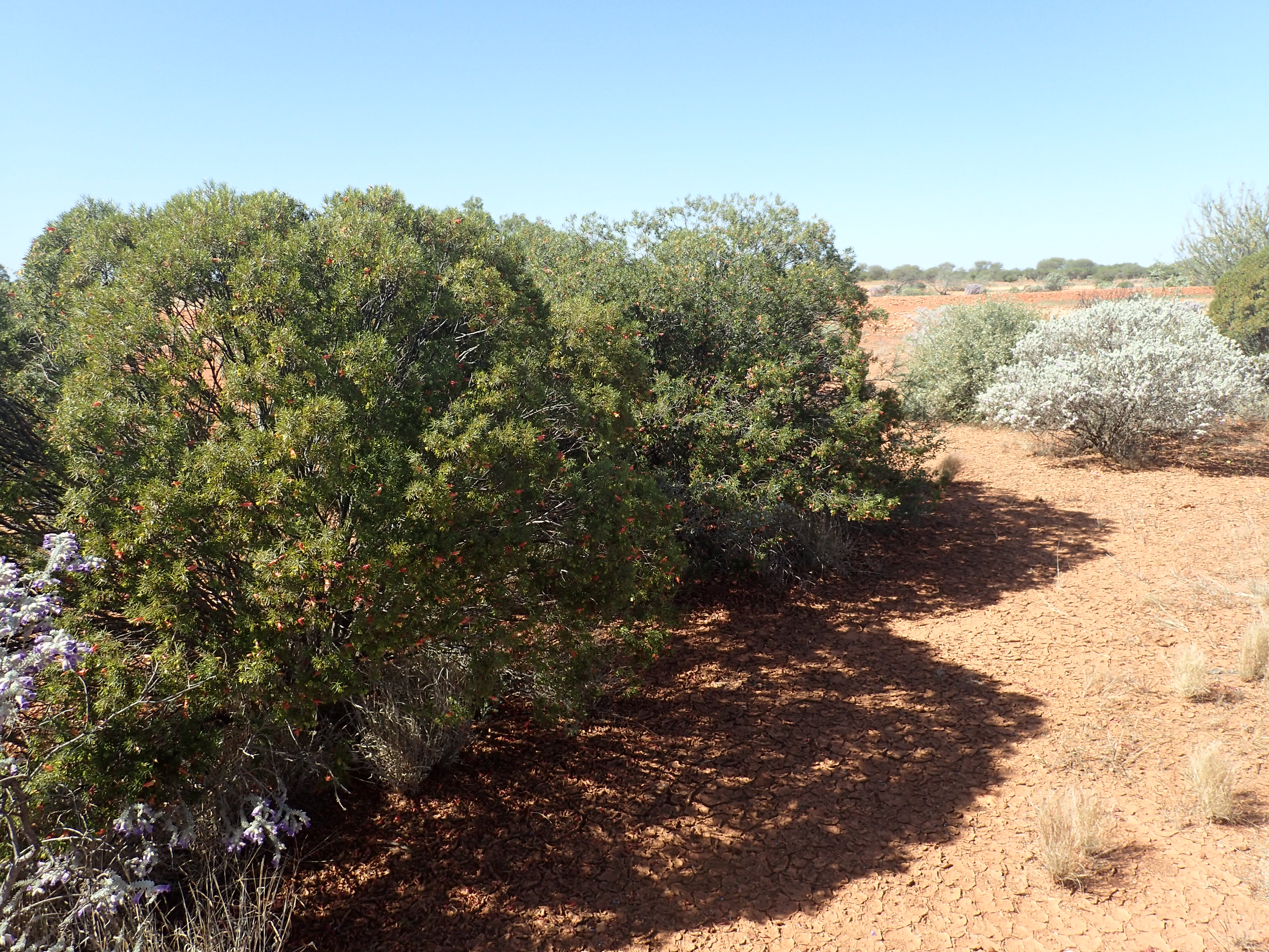 Eremophila linearis growing 36km south of Karalundi